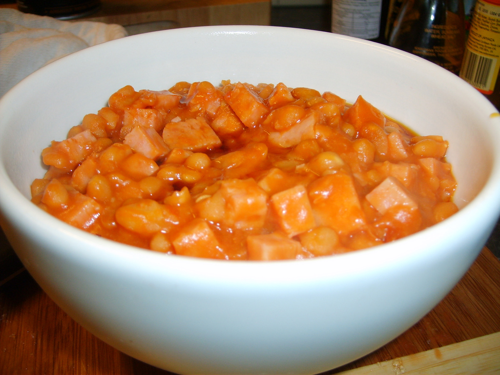 A bowl of pork and beans. Photo taken in the photographer's kitchen in Coventry, England, with a Samsung digital camera.